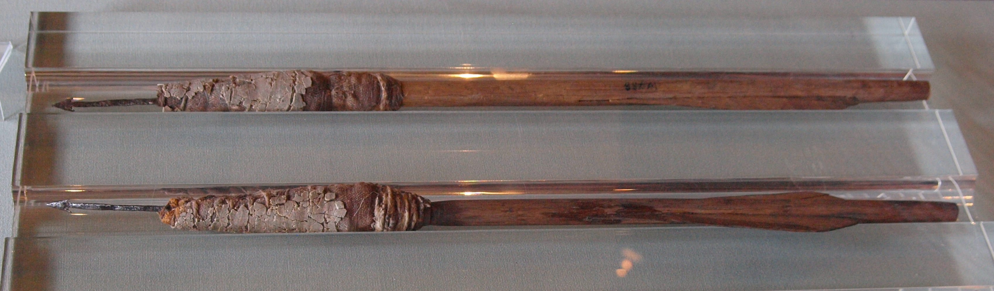 Two fire arrows (crossbow bolts) on an acrylic support. Southern Germany, ca. 15th century. Hardwood, iron, fabric and chemical mixture of saltpeter, charcoal and sulphur. Germanisches Nationalmuseum Nuremberg, Inv. No. W788 and W2056.